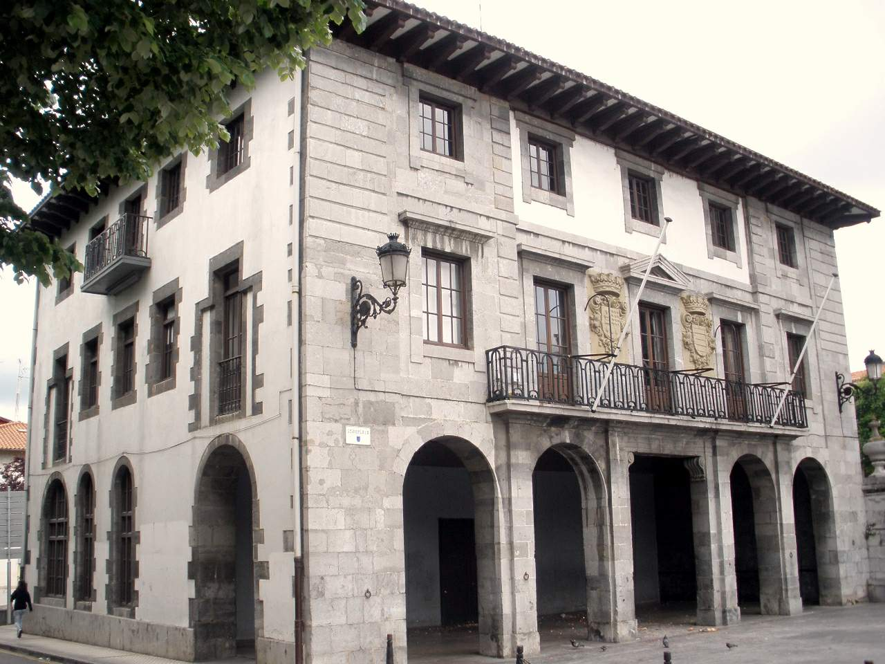 Ayuntamiento de Andoain